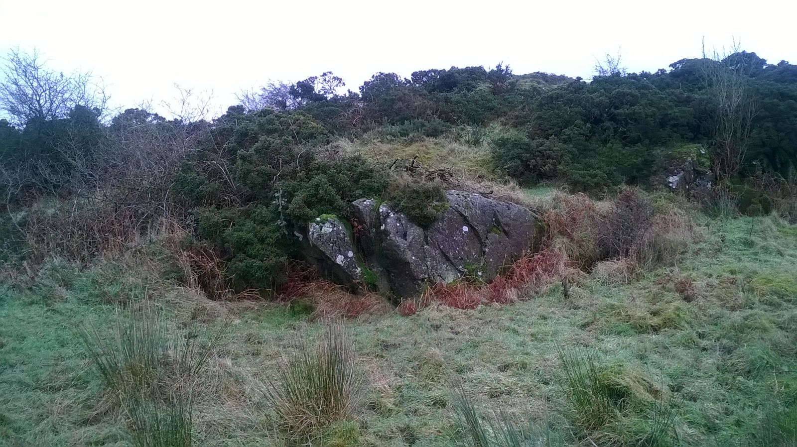 Frontal picture of the Mass Rock in Lemgare.